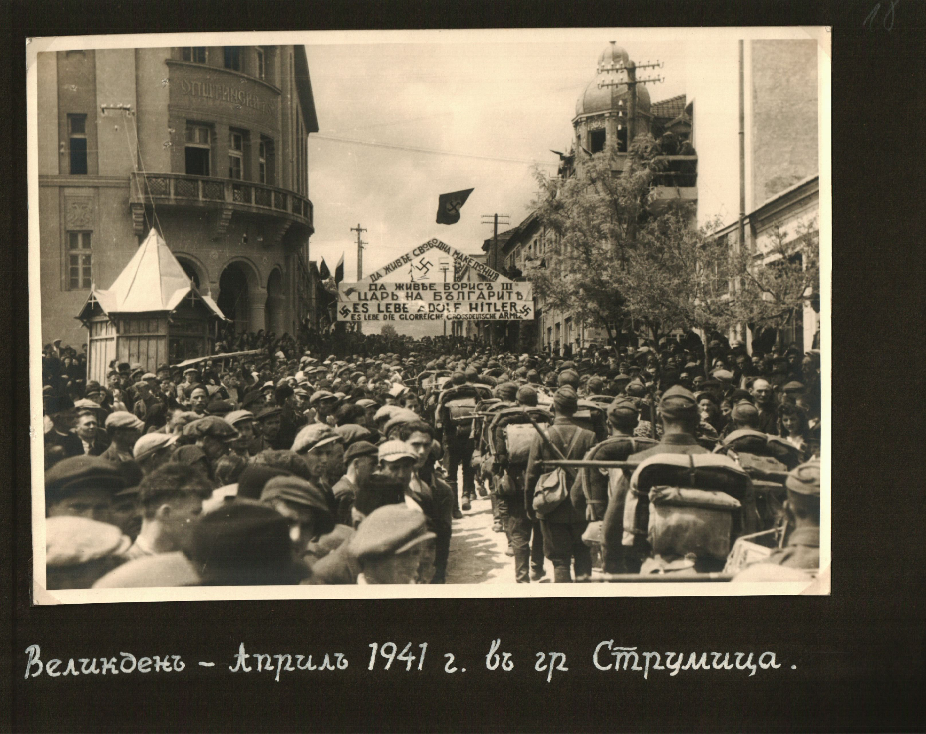 14 Infantry Macedonian Regiment